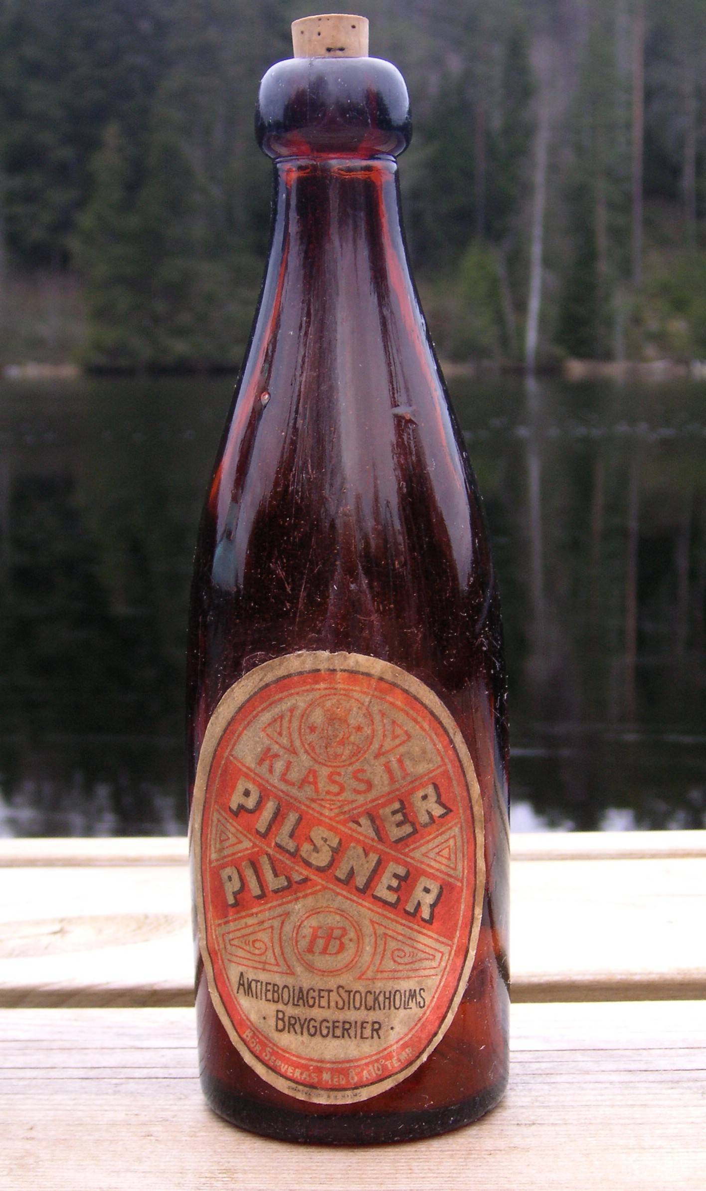 Swedish beer bottle "knoppflaskan" from 1910